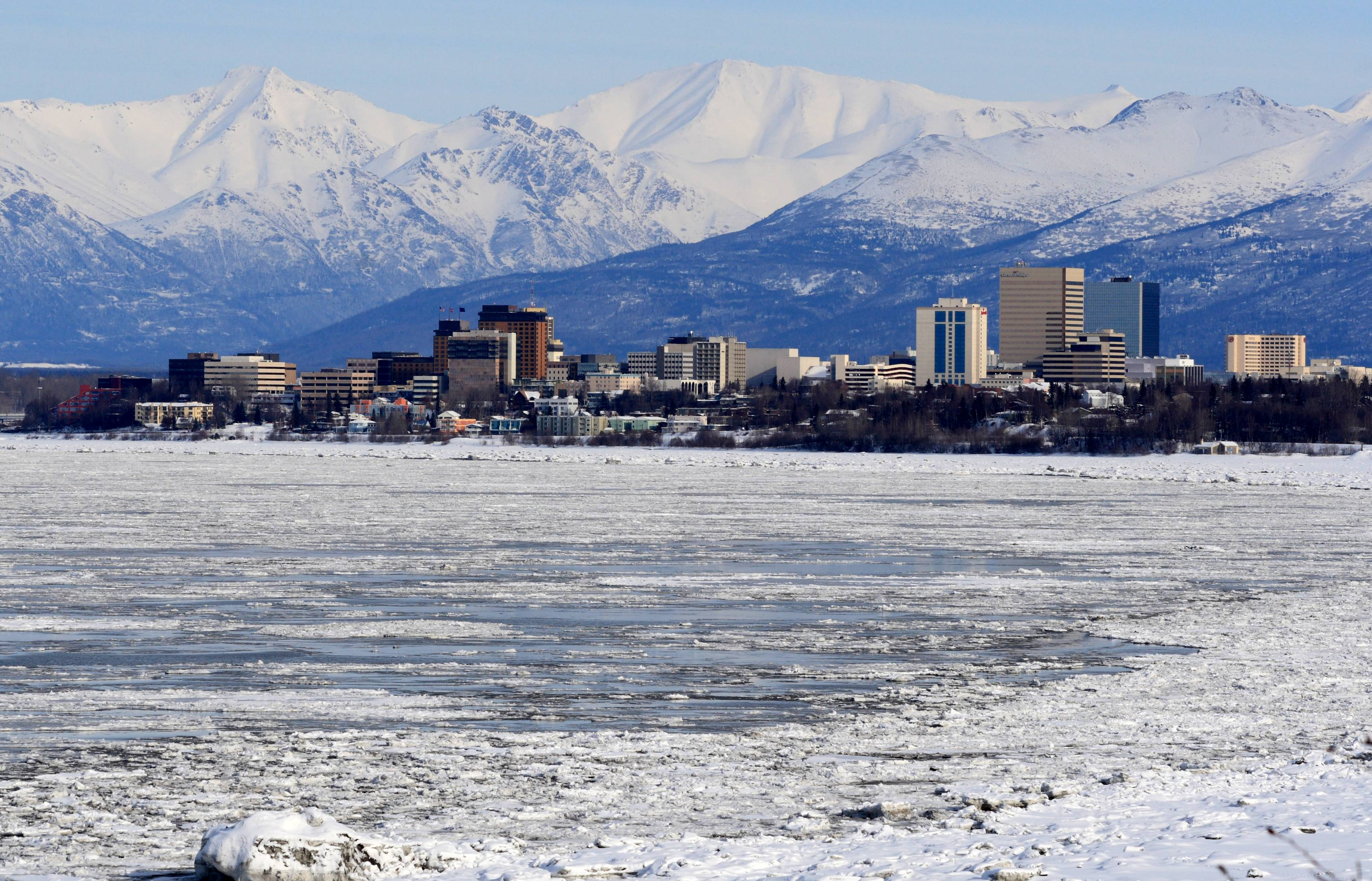 Anchorage and Chugach Mountains, Alaska